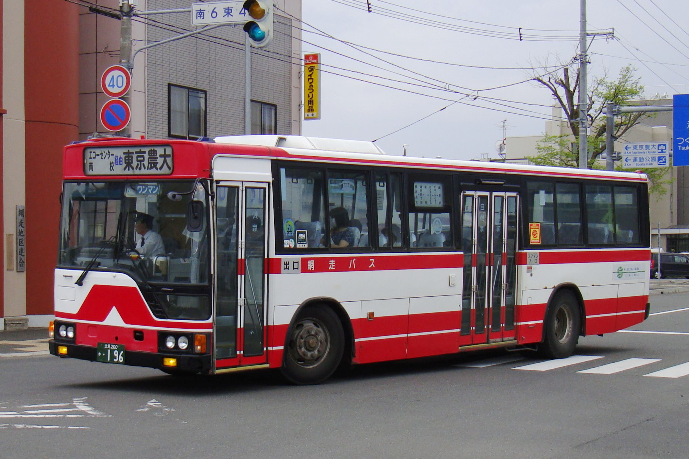 Abashiri city line